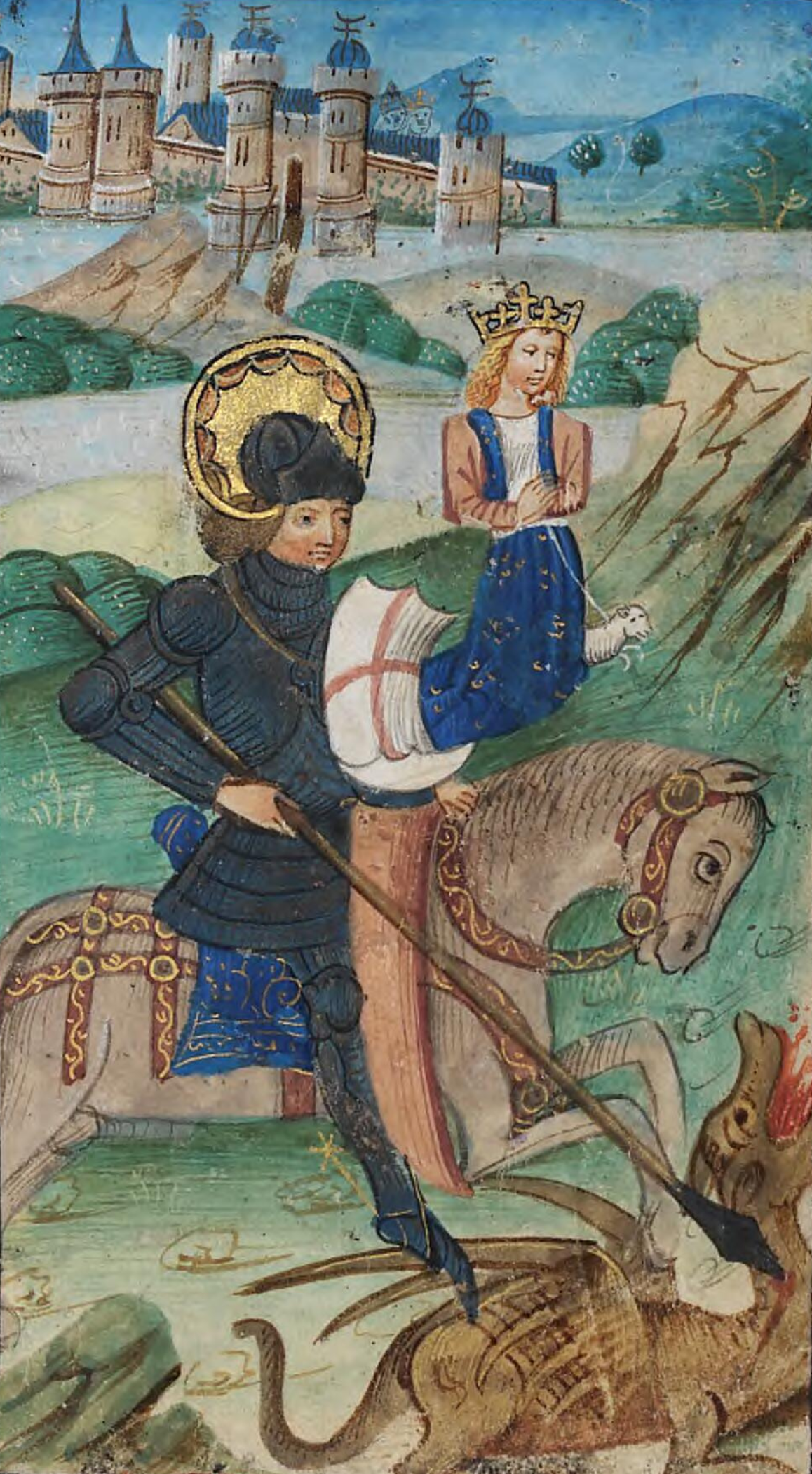 A medieval Book of Hours probably written for the De Grey family of Ruthin c.1390